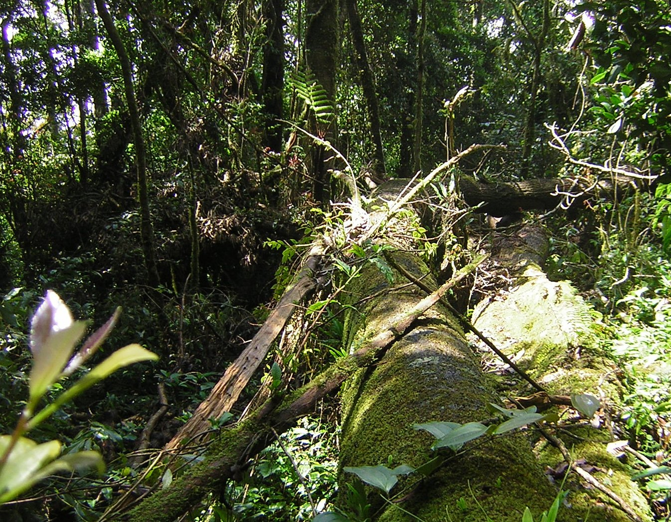 Montane forest at Ceremai mountain, Kuningan, West Java.